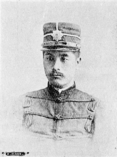 Lieutenant of Engineers Yanome Magoichi